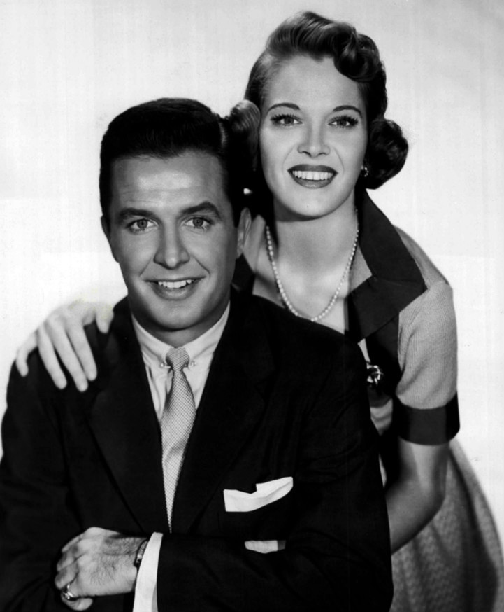 Publicity photo of Dean Miller and Frances Rafferty as Matt and Ruth Henshaw from the television program December Bride.